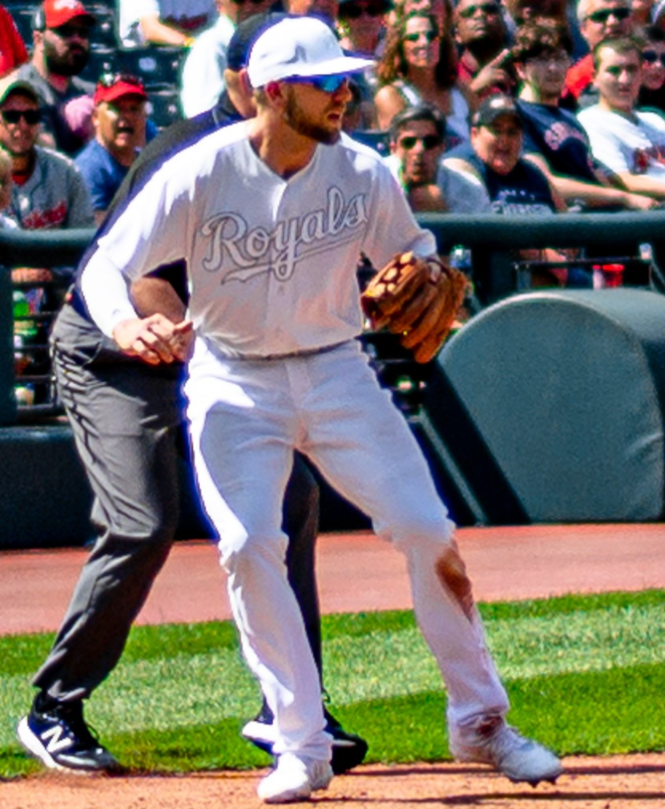 Kansas City Royals VS. Cleveland Indians